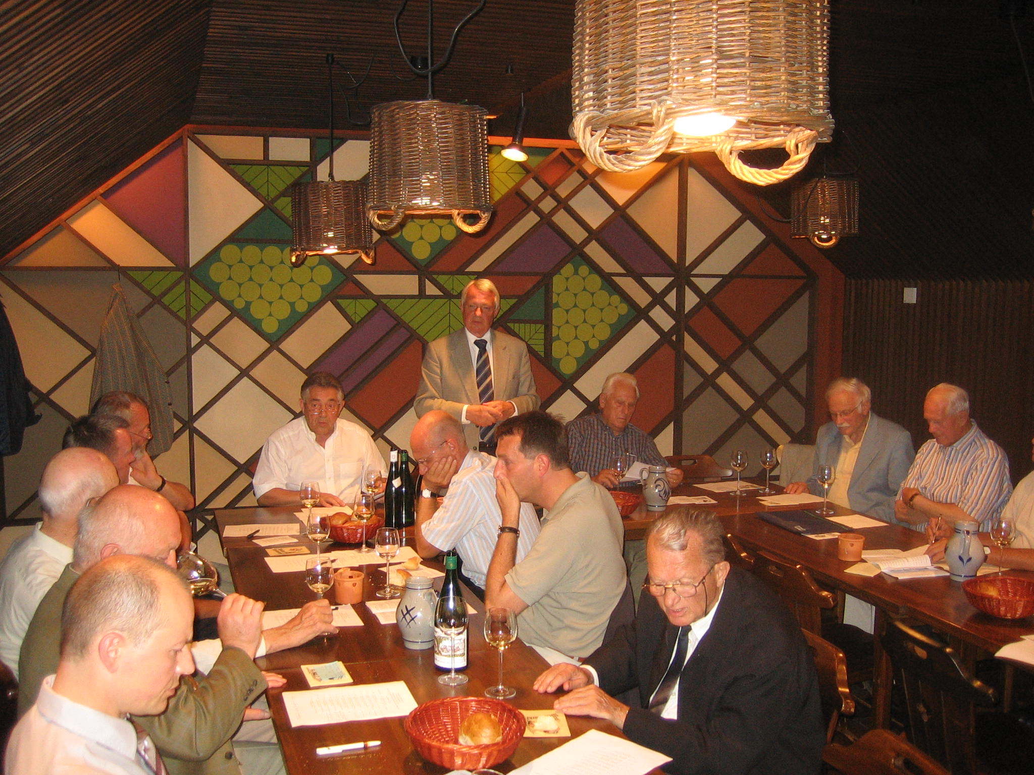 Contemporary wine tasting room in the Mainz Town Hall